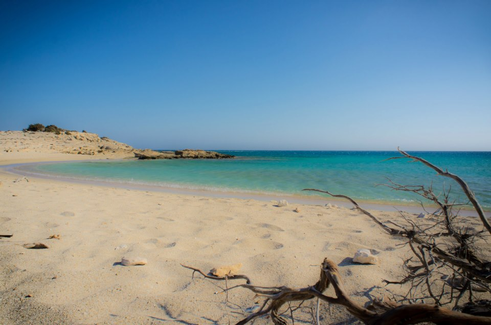 Diakoftis beach